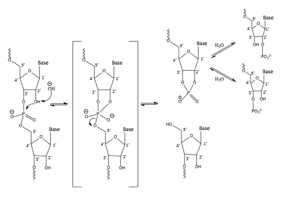 Previous Wikipedia image, but added number on carbons and made charges more visible